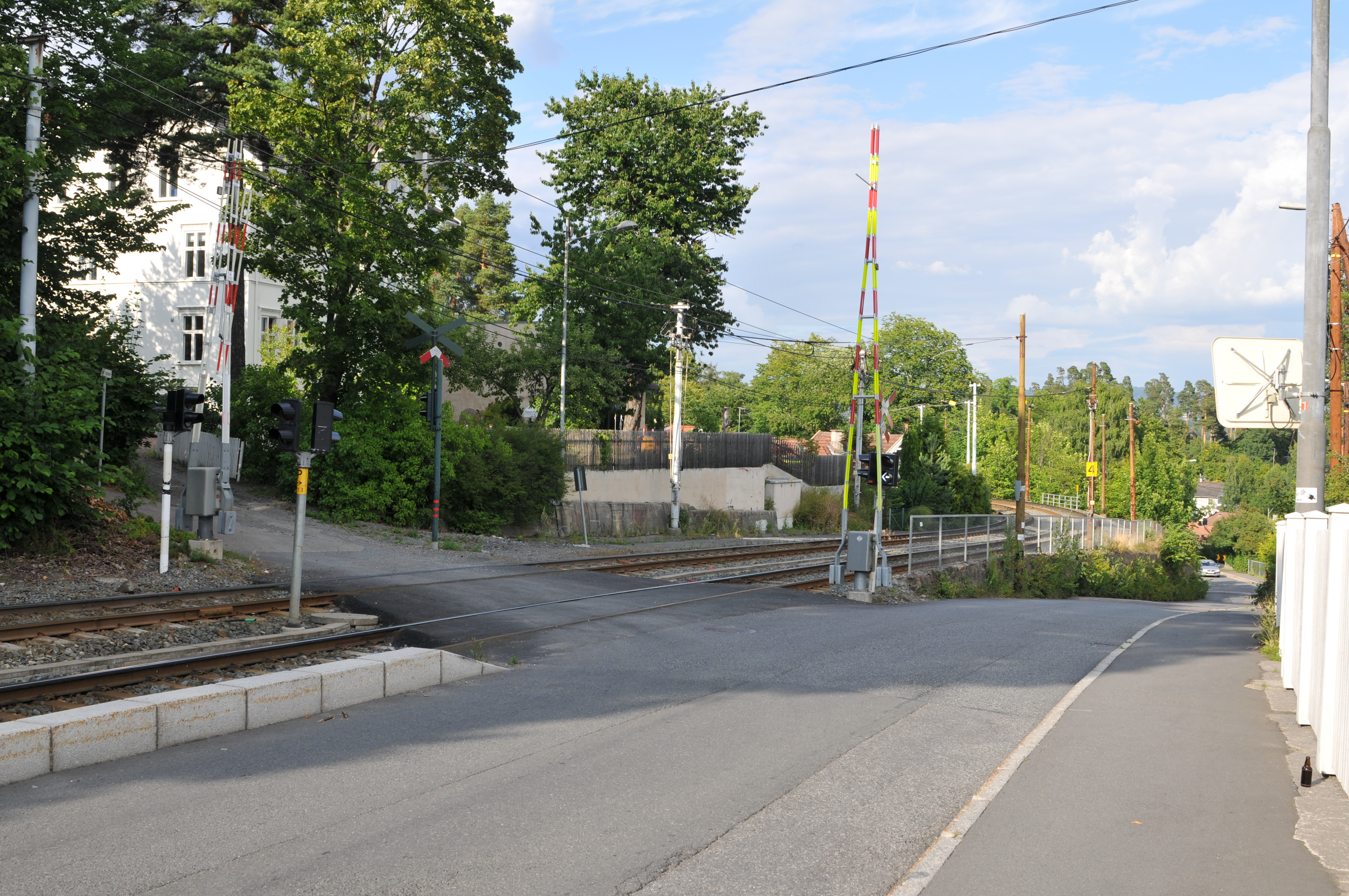 Bestumskolevei intersection Bestumveien